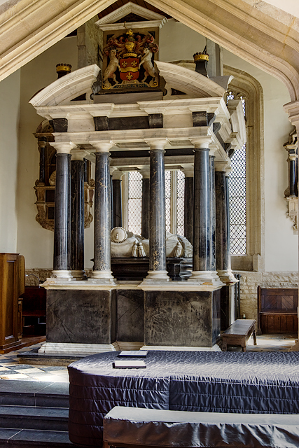 St James's church, Chipping Campden: Hicks monument. The sumptuous canopied tomb-chest of local benefactor Sir Baptist Hicks, Lord Campden (†1629), whose recumbent effigy in state robes lies alongside that of his wife Elizabeth May. The tomb canopy is supported by 12 columns of Egyptian marble. Knighted in 1603, and created a baronet in 1620, Baptist Hicks was a wealthy mercer who had access to the court through the influence of his brother Michael, who was a secretary to Lord Burghley, and a confidant of Robert Cecil. During his lifetime Hicks made a number of benefactions to the town of Campden that included the Almshouses, and the Market Hall, as well as a number of gifts to the church.